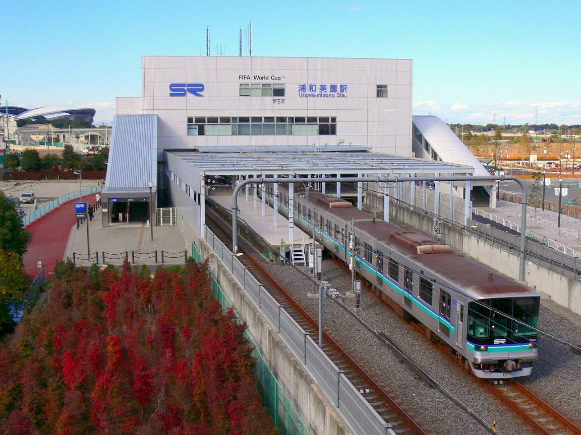 Saitama-Railway Urawa-Misono Station.